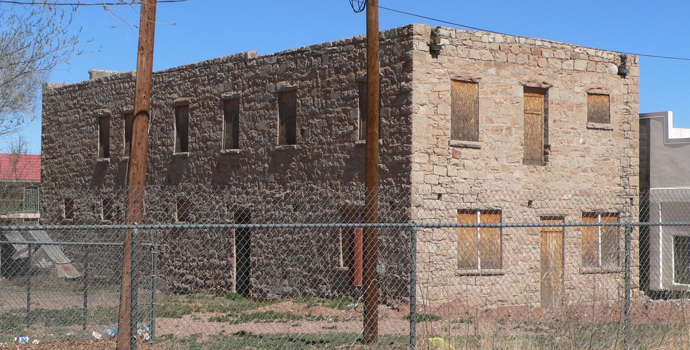 Isaacson buildling, located on south side of Commercial Street in St. Johns, Arizona; seen from the southwest.